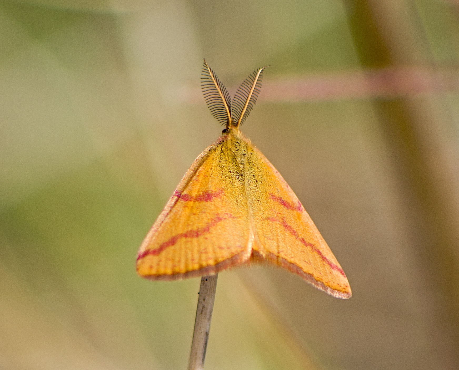 Пяденица пурпурная / Lythria purpuraria / Purple-barred Yellow / Knöterich-Purpurspanner